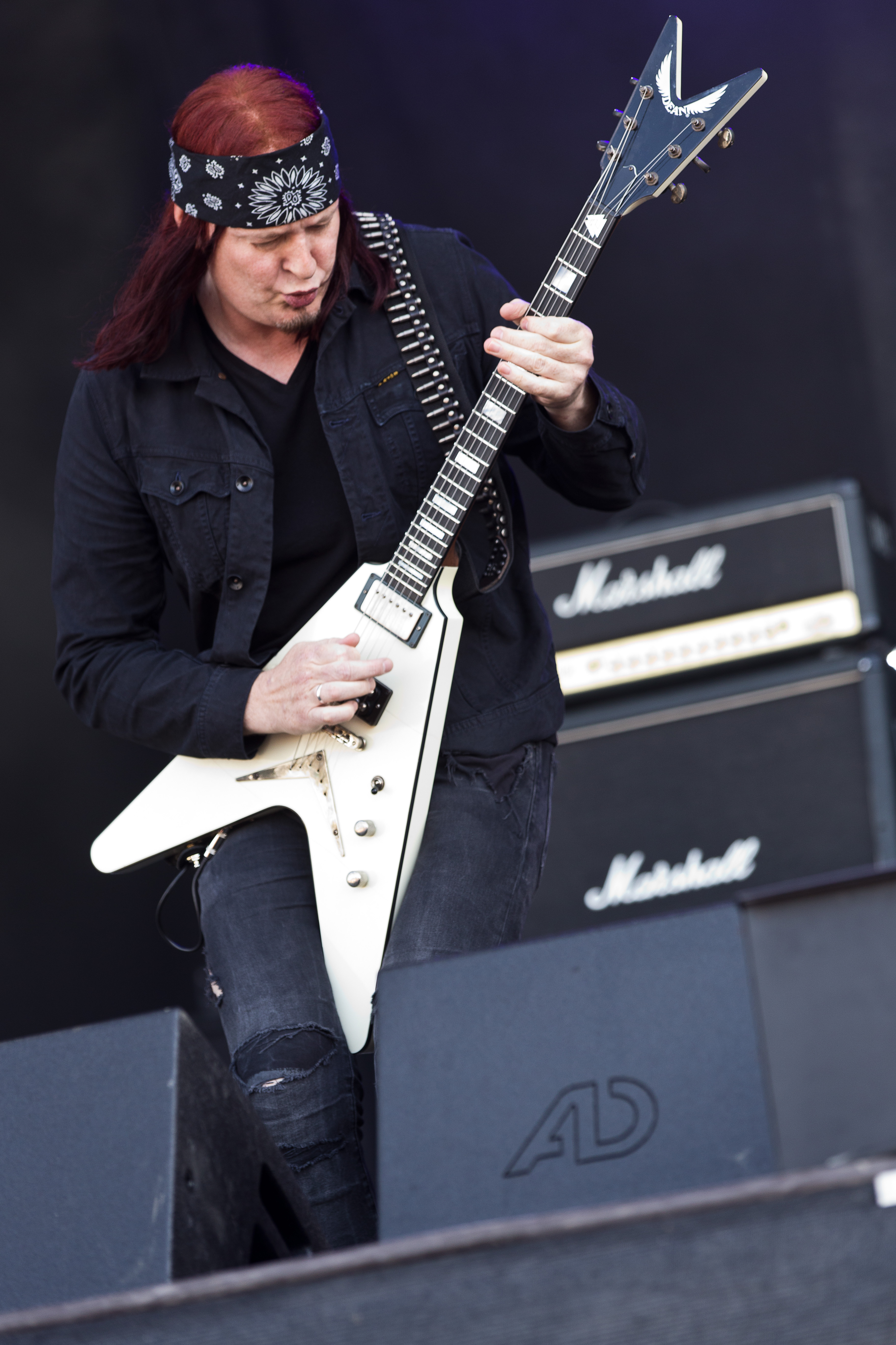 The Swedish stoner metal band Spiritual Beggars at the Rockharz Open Air 2016 in Ballenstedt/Germany.